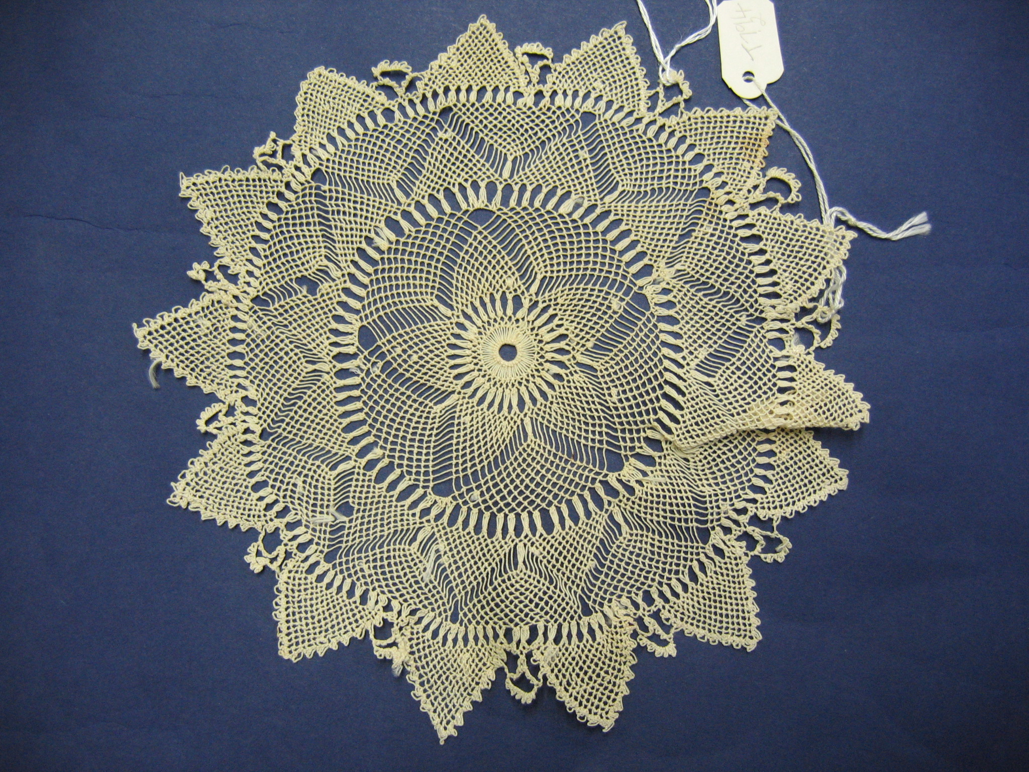 Small round mat, cotton, hand made Armenian knotted lace This mat uses Armenian knotted lace technique, whereby the lacemaker creates the "net" and the design simultaneously. It is difficult to work a circular piece such as this, because it requires skill to keep the work flat. Alwynne Crowsen, Volunteer, Applied Arts